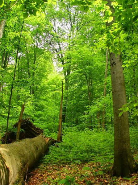 Beech primeval (virgin) forest in Slovak national park Poloniny, UNESCO world heritage site from 2008.